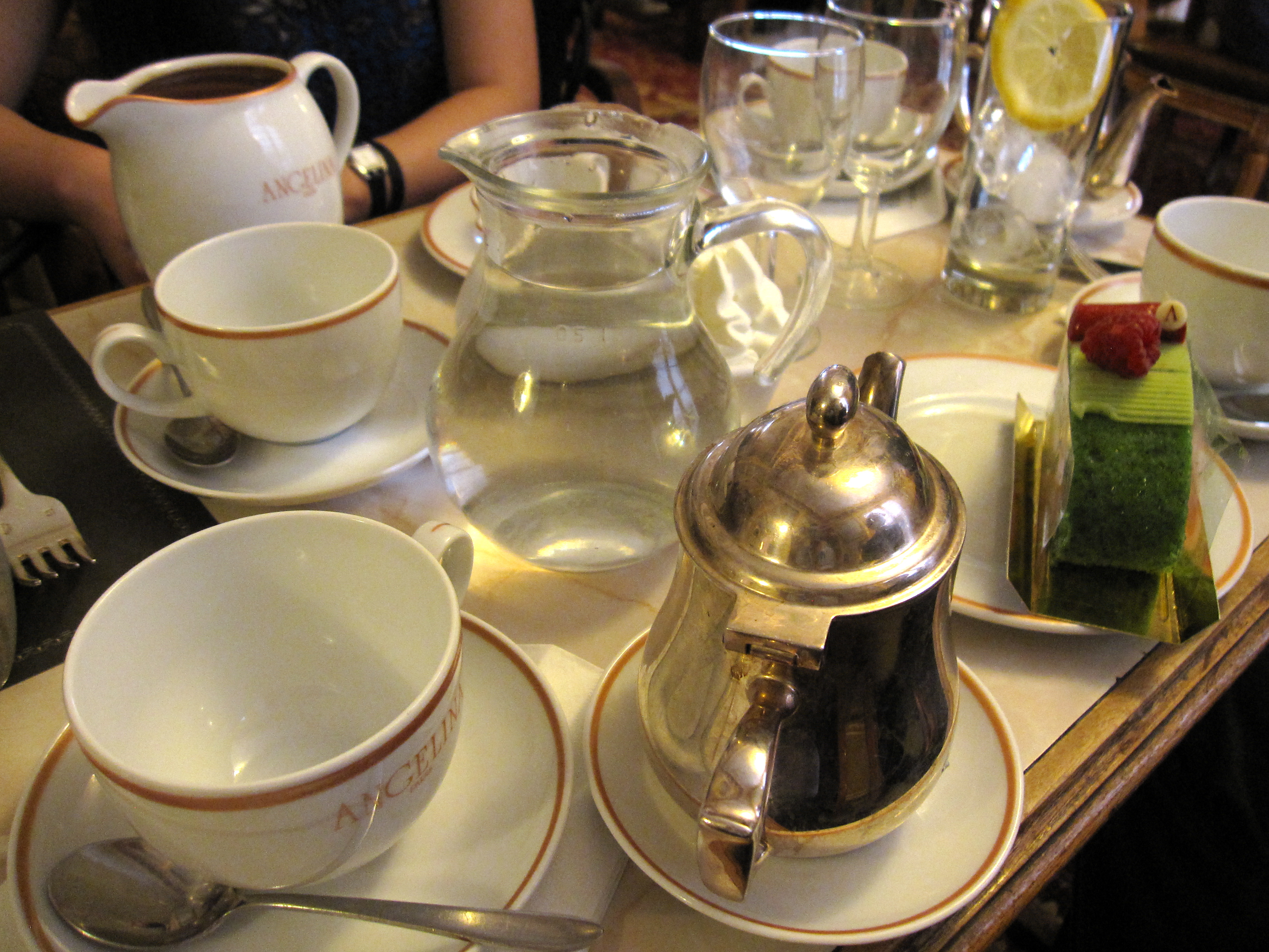 Pastry and chocolat africain in the Angelina café in Paris.